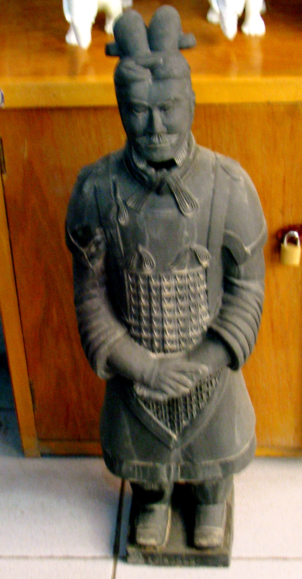 took the photo of my replica of a General Terracotta Warrior that I purchased in Xian, China. Taken on June 10 2010